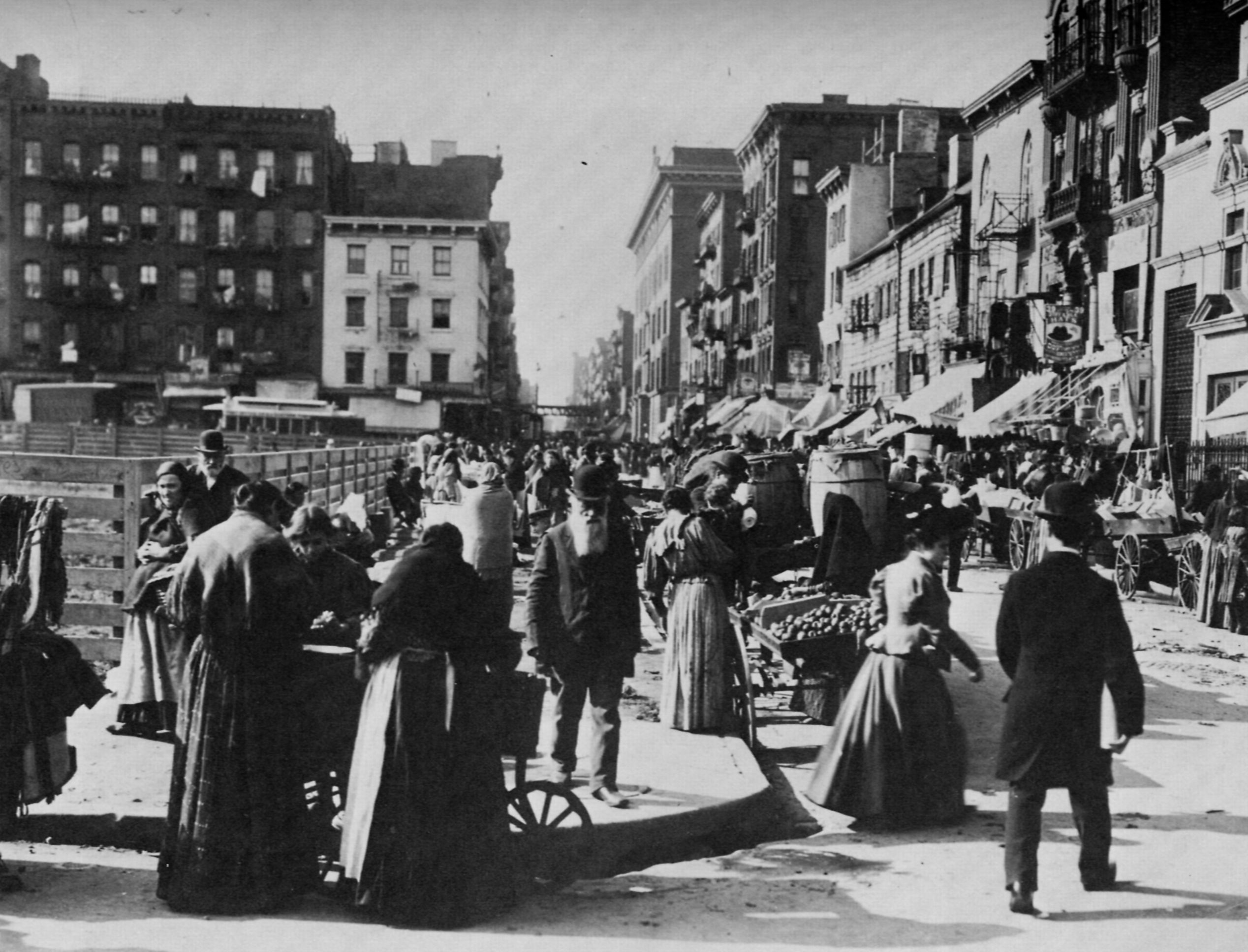 Looking west from Norfolk Street along Hester Street (Manhattan) around 1898